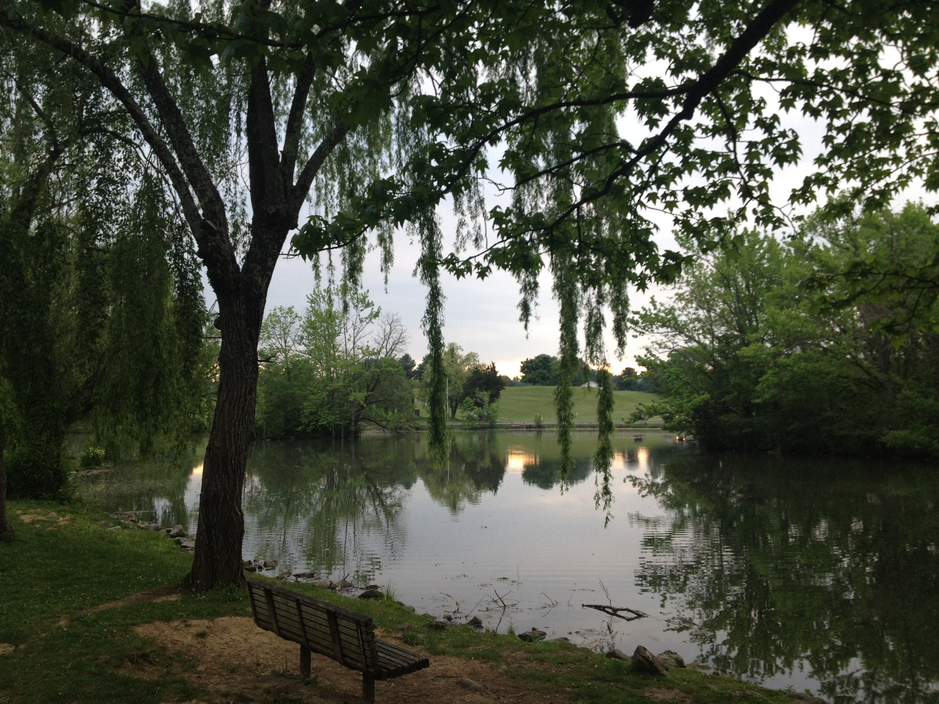 The Duckpond at Virginia Tech. Blacksburg, Virginia